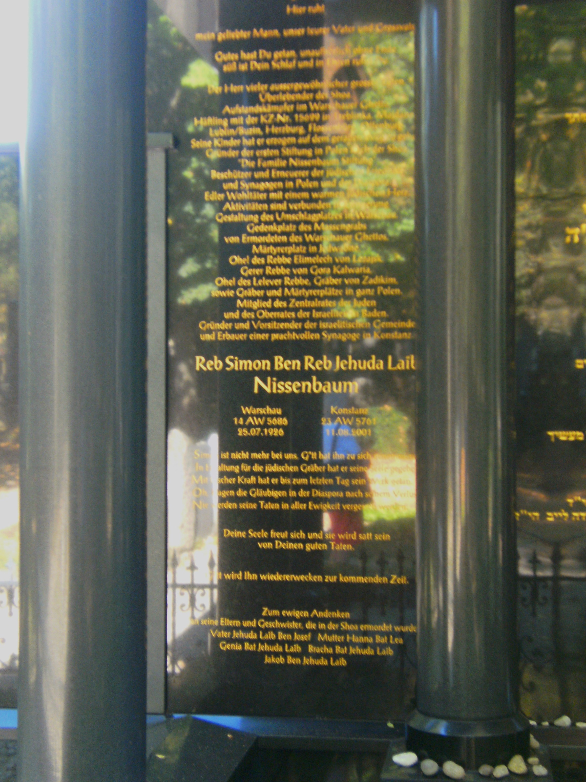 Gravestone of Reb Simon Ben Reb Jehuda Laib Nissenbaum (1926-2001) on the Jewish cemetery of Konstanz, Germany.